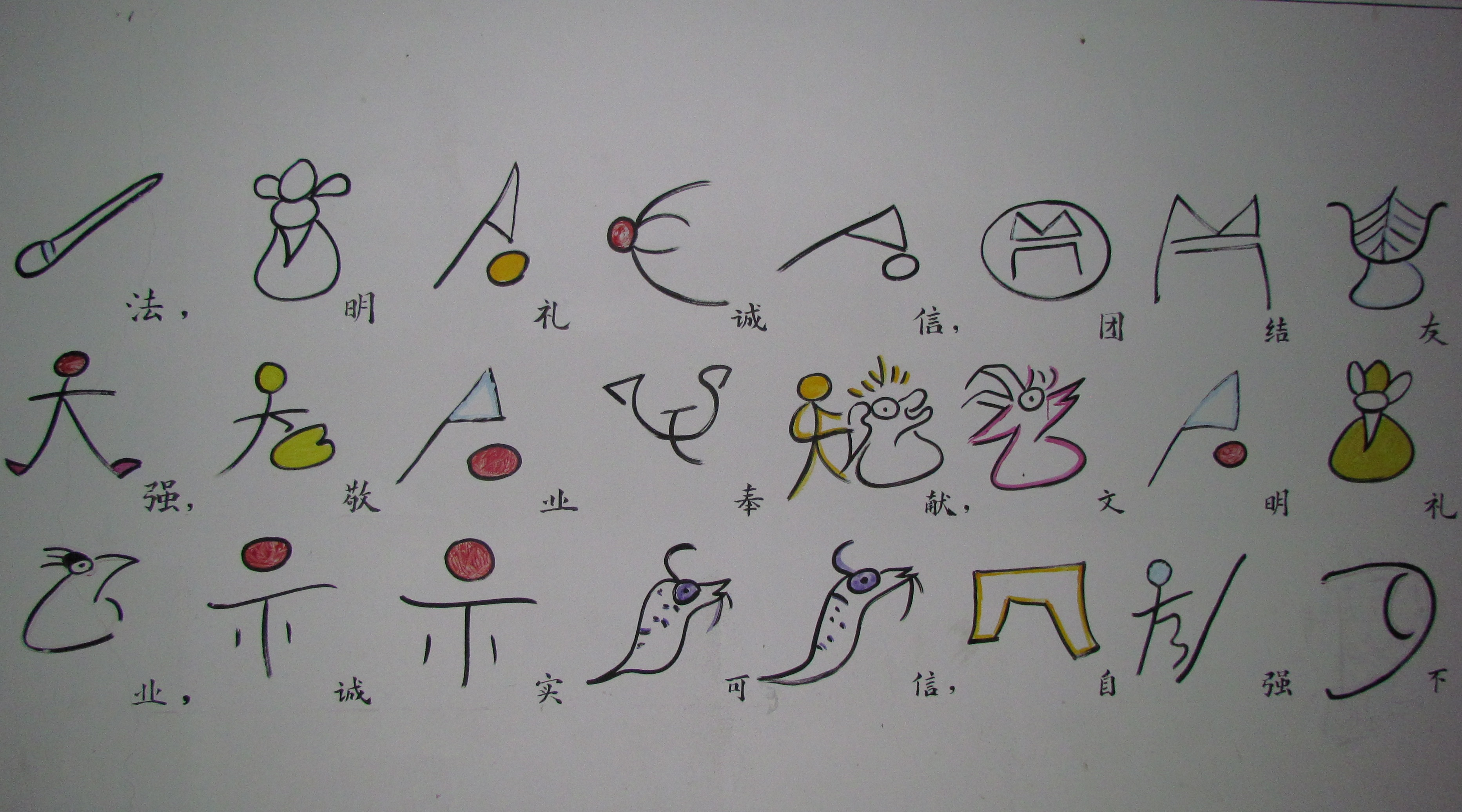 Dongba symbols in Lijiang. Formerly used by Dongba priests to write sacred texts, Dongba scripts are today mainly used in relation with the soaring tourist industry